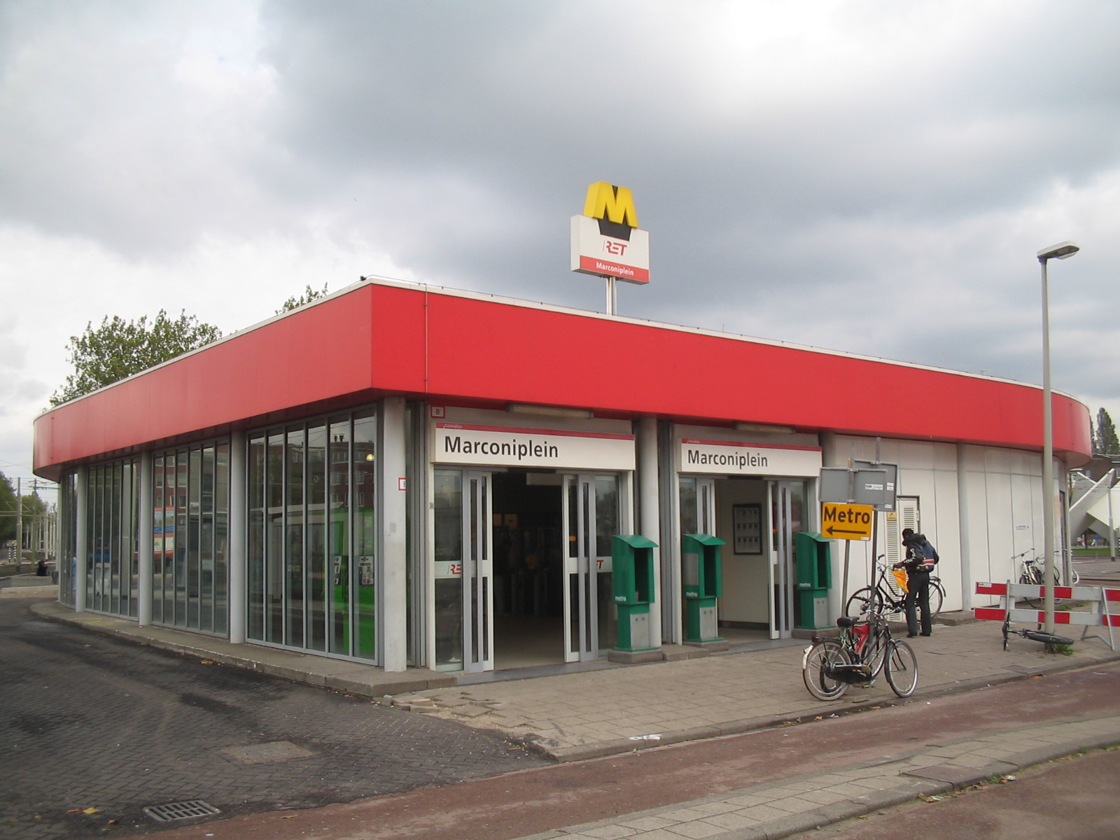 Ingang metrostation Marconiplein, Rotterdam, foto 23 oktober 2005